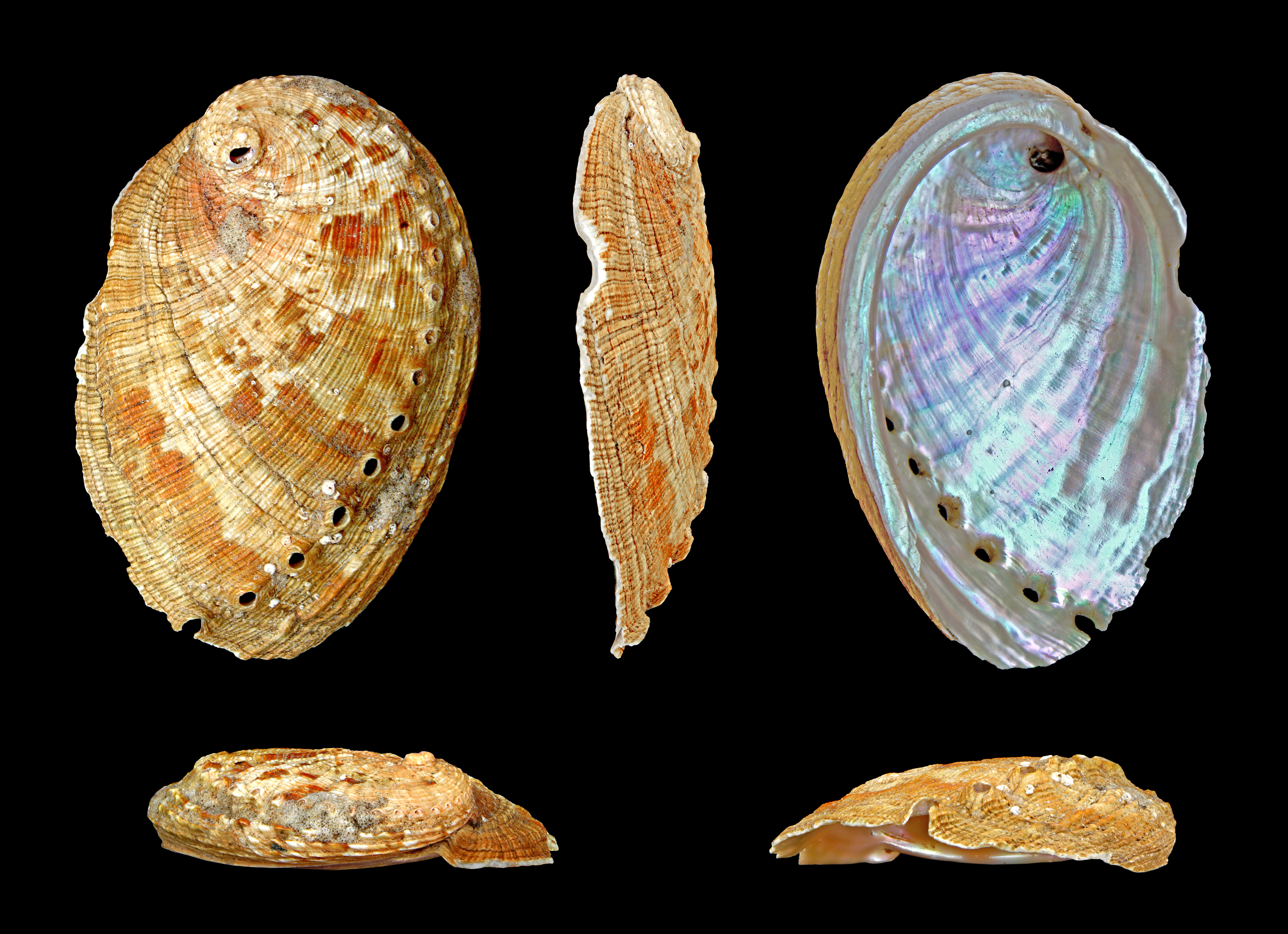 Variously Coloured Abalone; Length 8.5 cm; Originating from Japan; Shell of own collection, therefore not geocoded. Dorsal, lateral (right side), ventral, back, and front view.